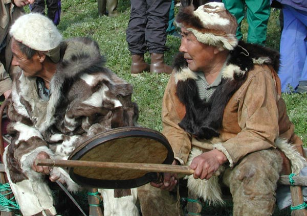 Elders of Yanrakinnot playing a sealskin drum.